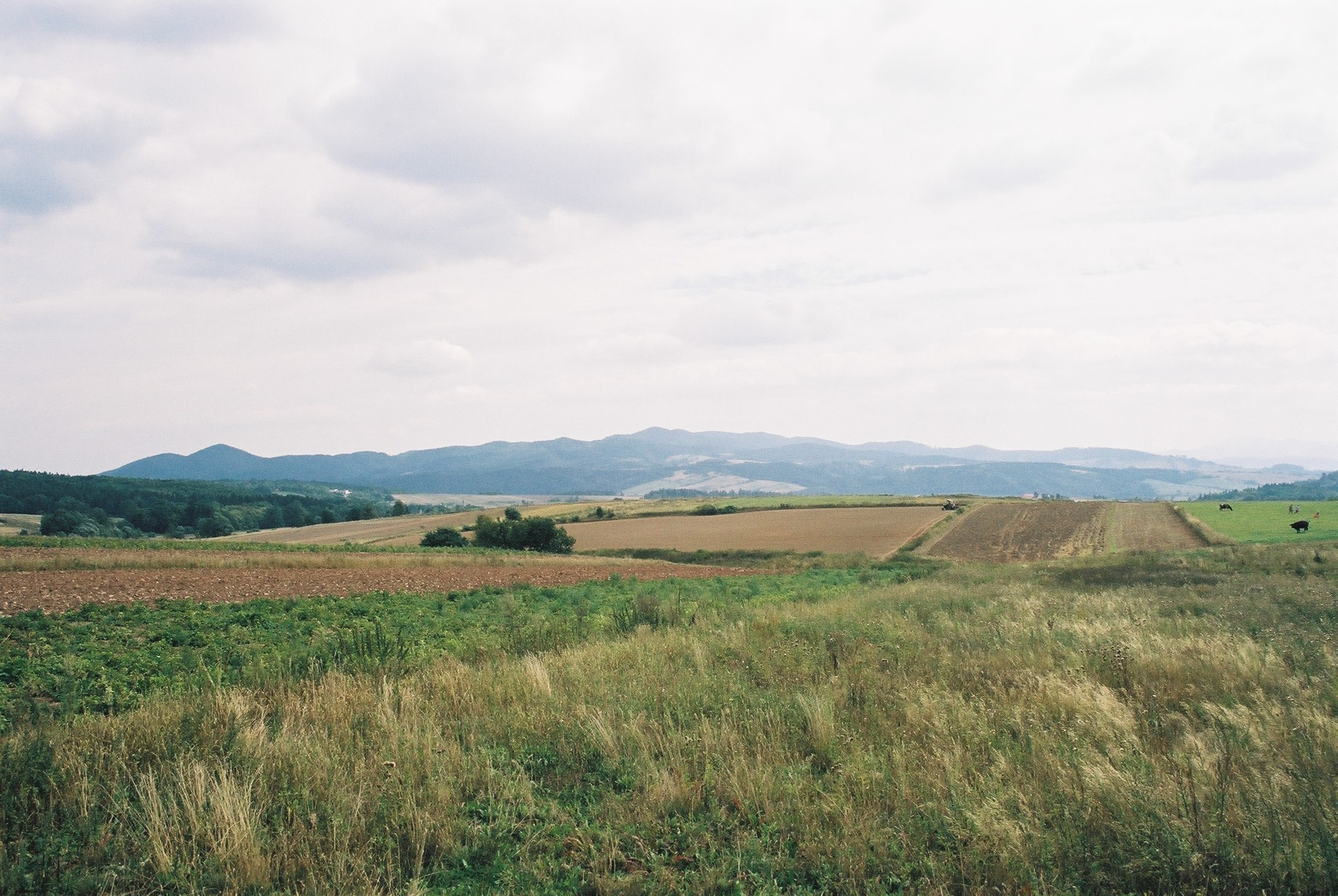 Eastern range of Bardzkie Mountains, seen from the village Wojbórz